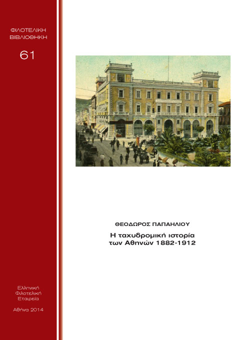 Philatelic Library no. 61 cover (The object belongs to the Hellenic Philotelic Society library. The HPS Board has granted the license for its scan to be freely used)